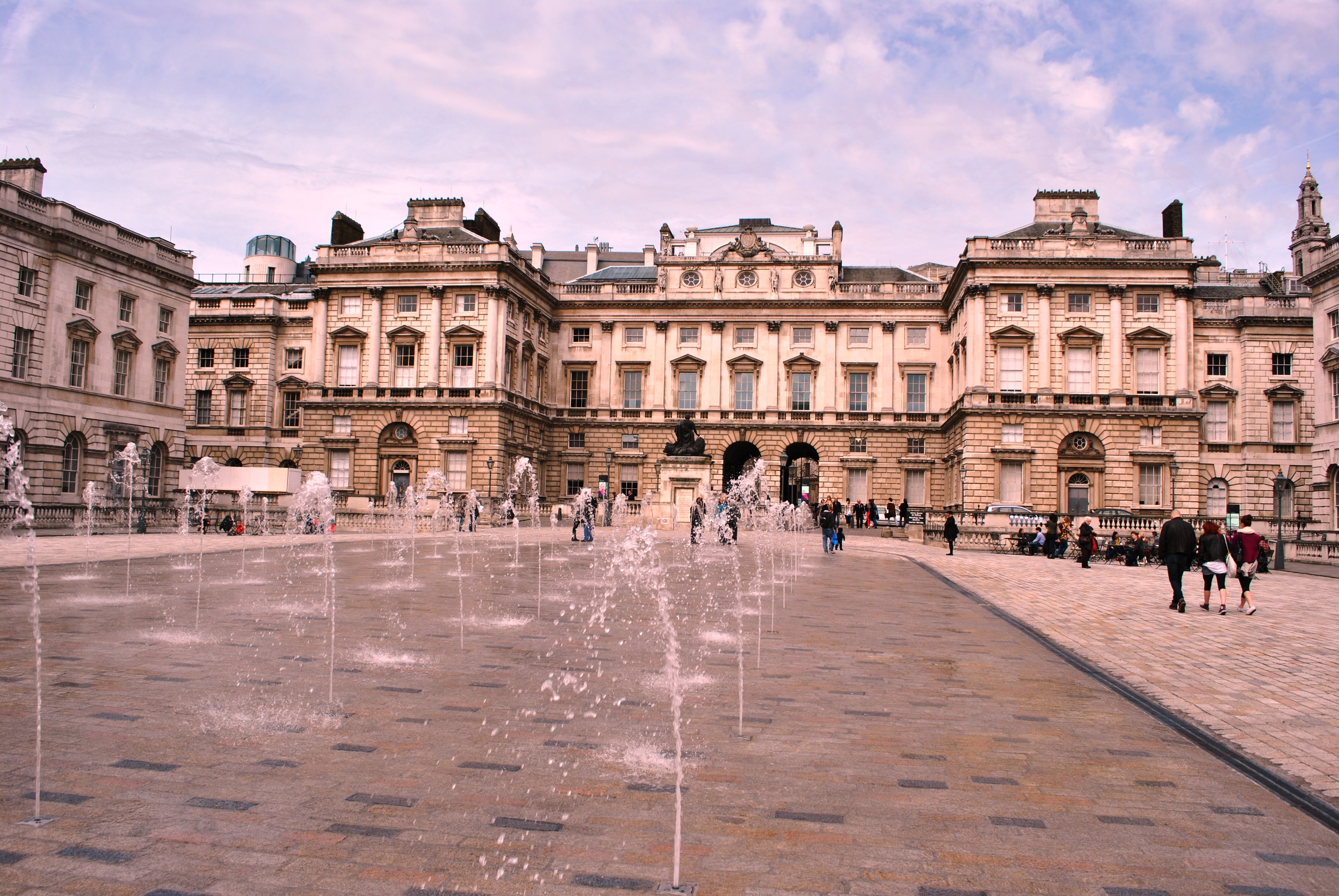 Image originally published in Queer Places: Retracing the Steps of LGBTQ people around the World Authored by Elisa Rolle